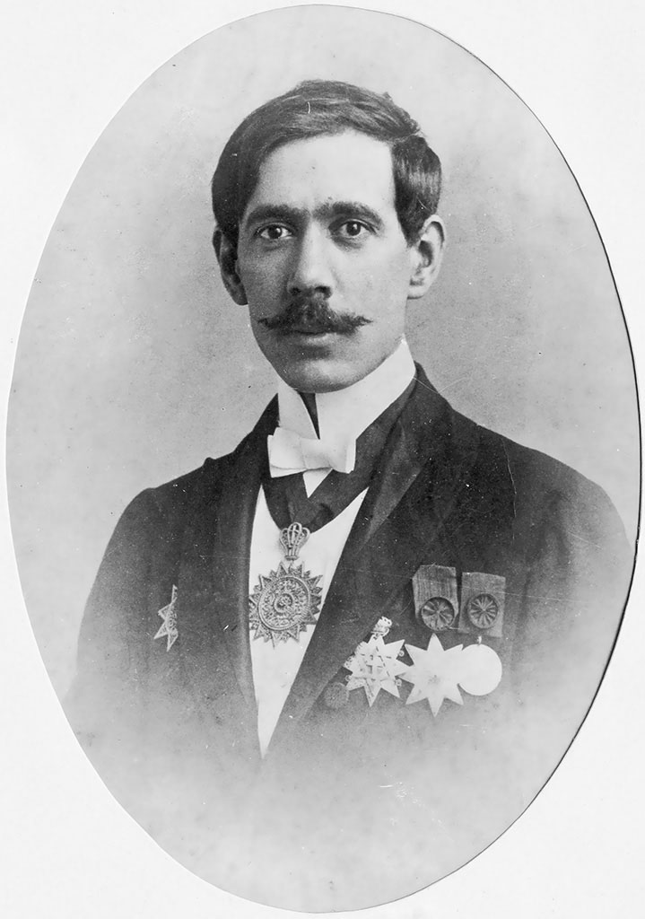 George Prokopiou the Painter, Athens 1907 Possibly a wedding picture.